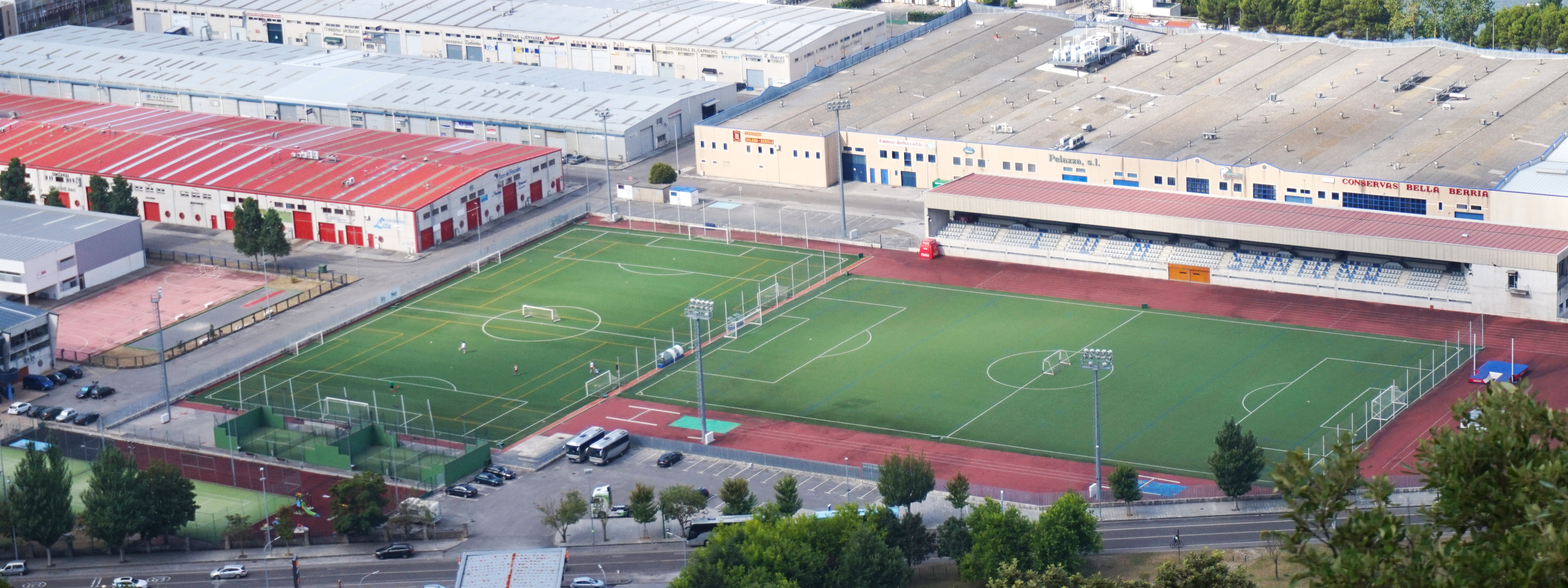 Football fields in Santoña, Spain. View from a hill. This photograph was taken with a Sony Alpha a5000.